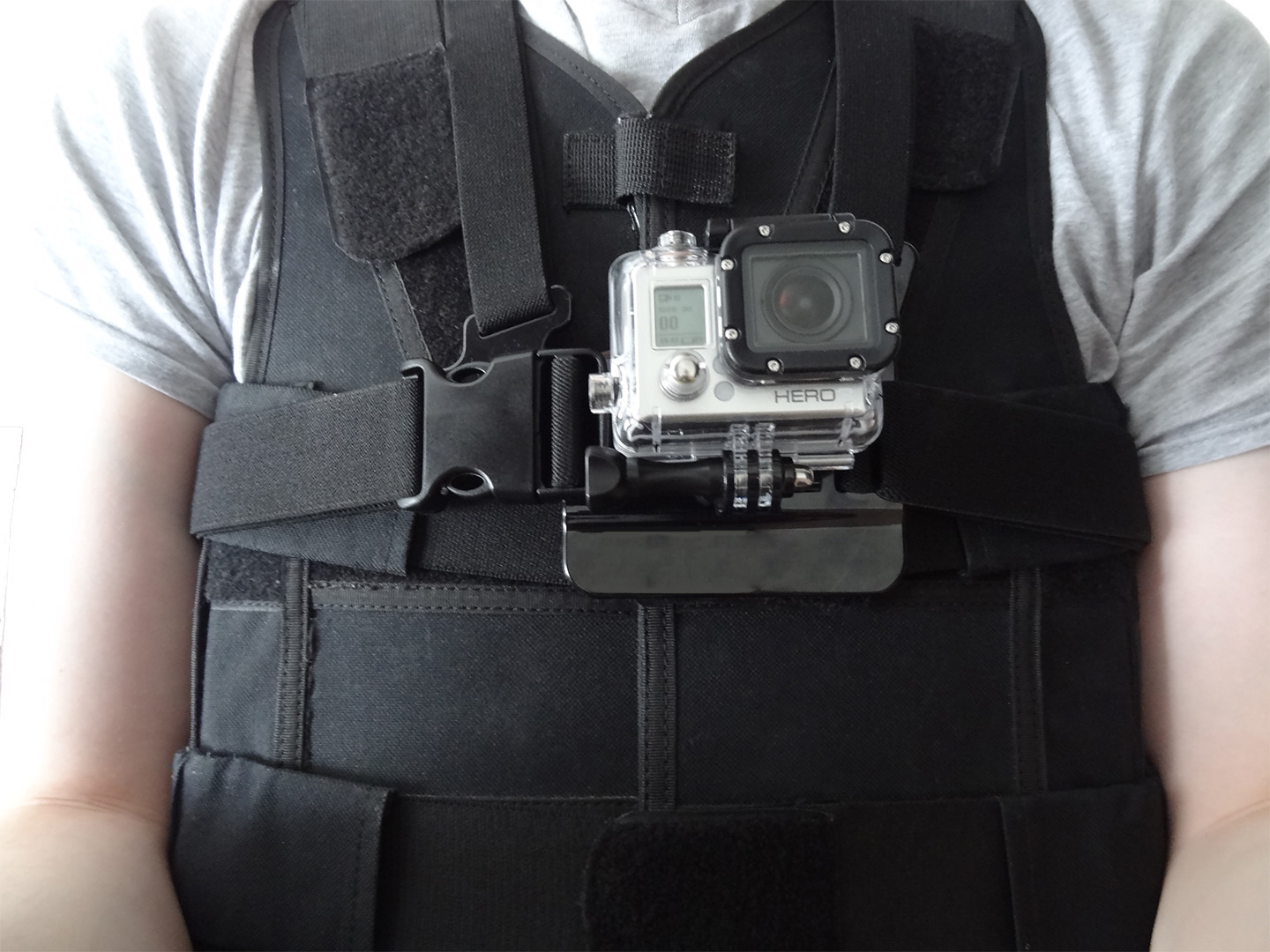 GoPro camera used by a security officer